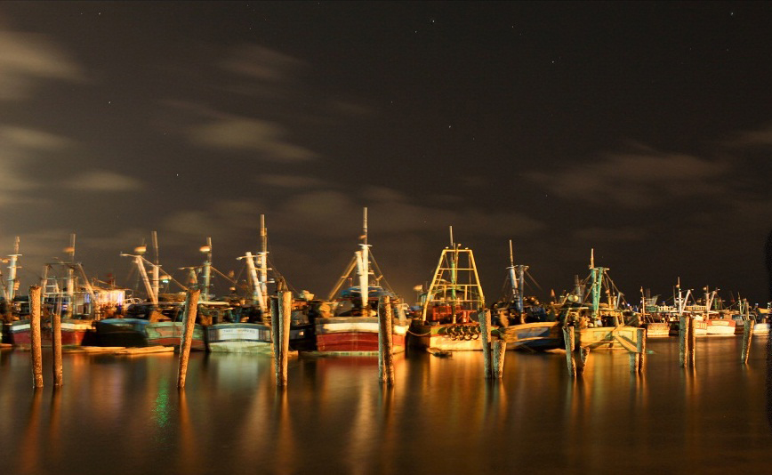 Royapuram, a locality of Chennai, South India, is the place where the first railway station of south India was constructed, and from where the laying down of the second railway line of the South Asia commenced in the 1850s.